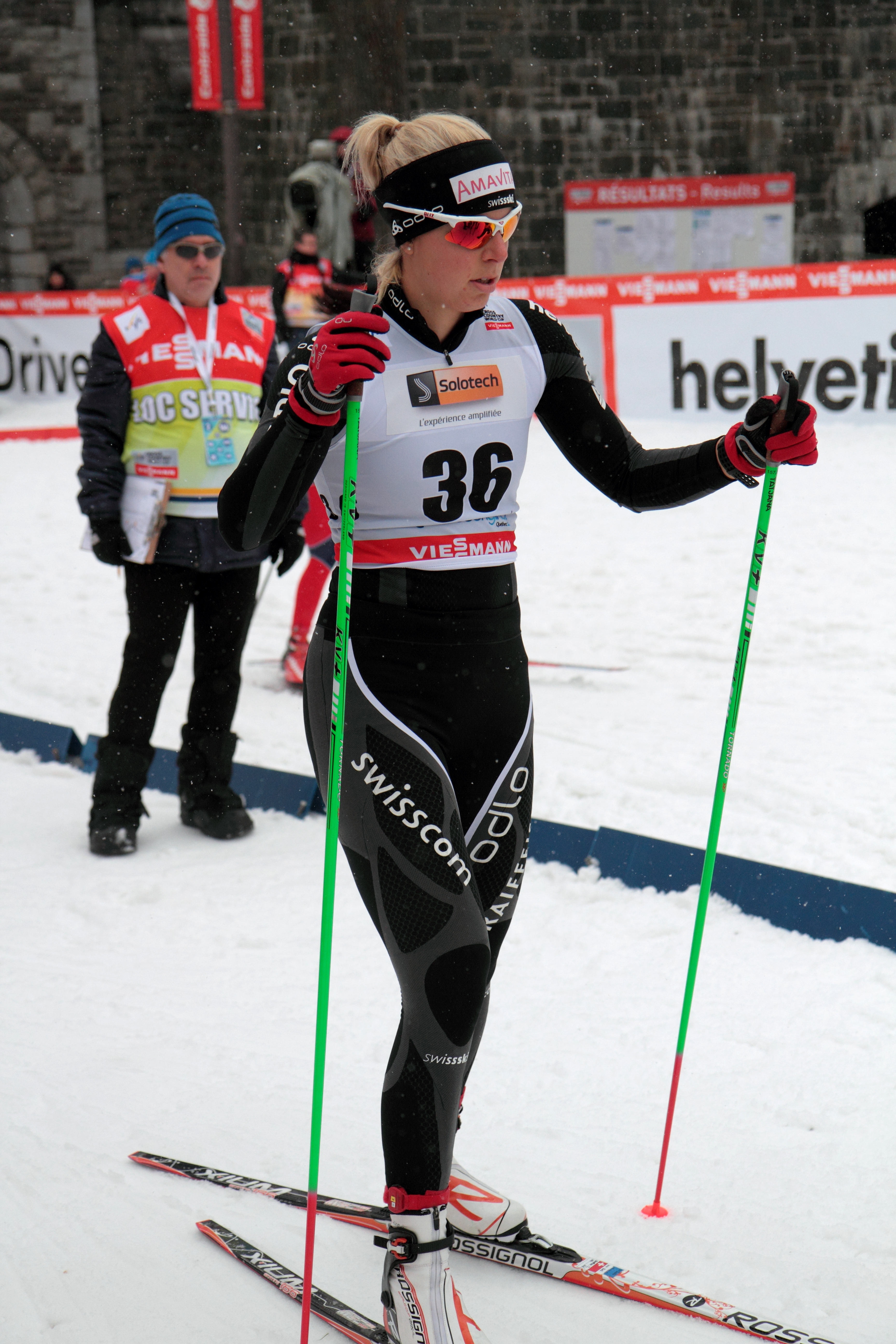 Tatjana Stiffler, FIS Cross-Country World Cup 2012, Quebec, Canada.